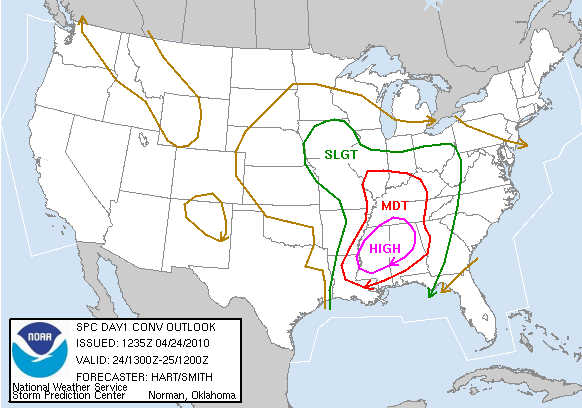 SPC forecast showing high level of possible severe weather.